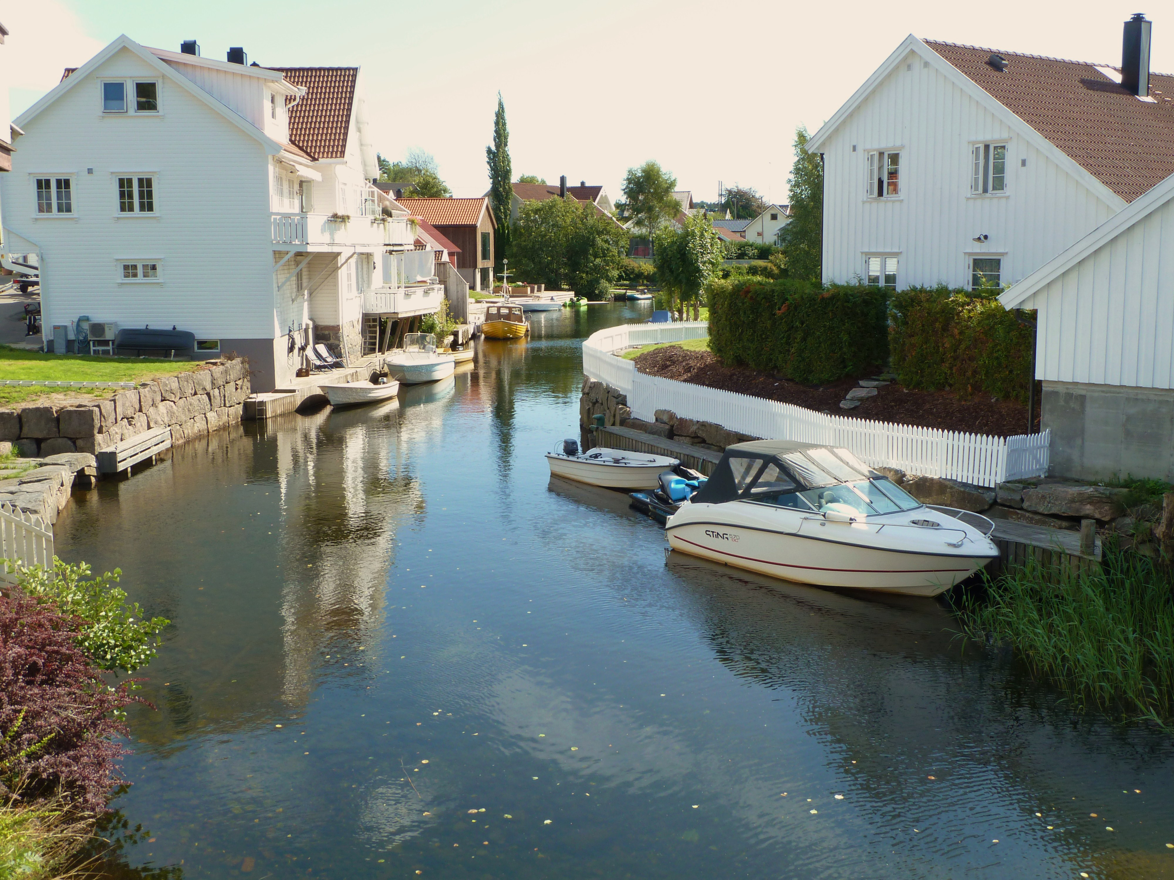 Lundeelva. River in Søgne, Vest-Agder, Norway.